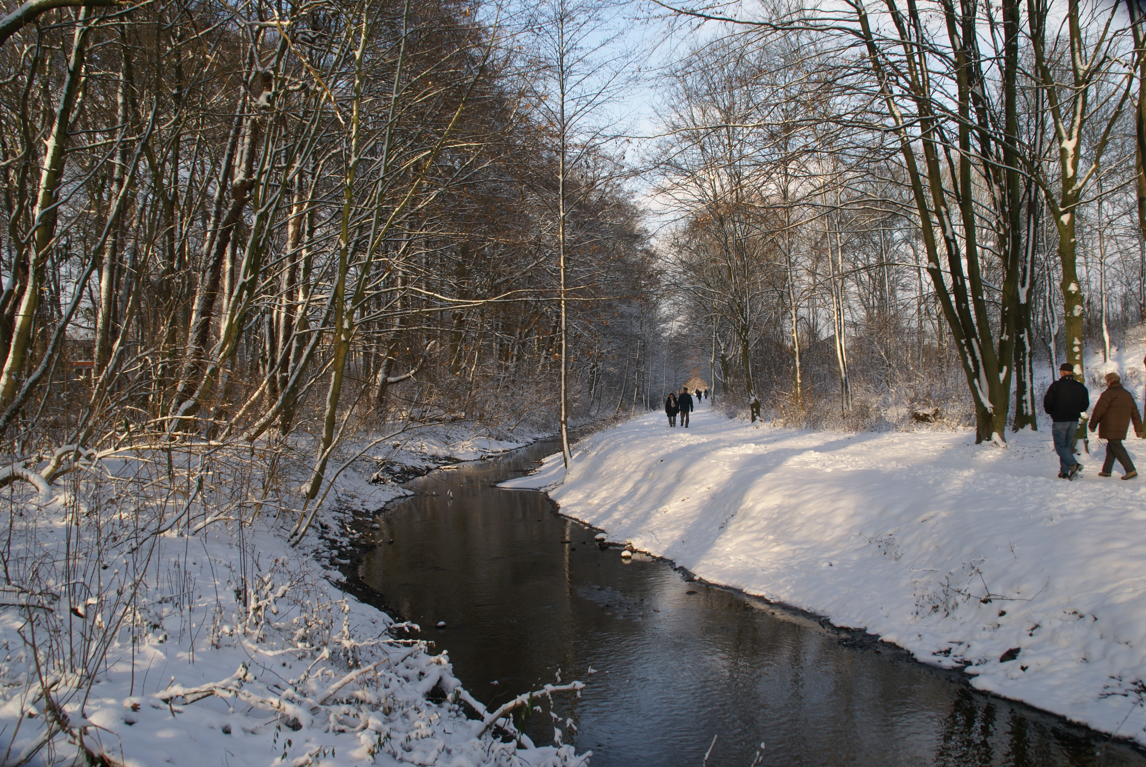 Hamburg (Rahlstedt), Germany: Berner Au